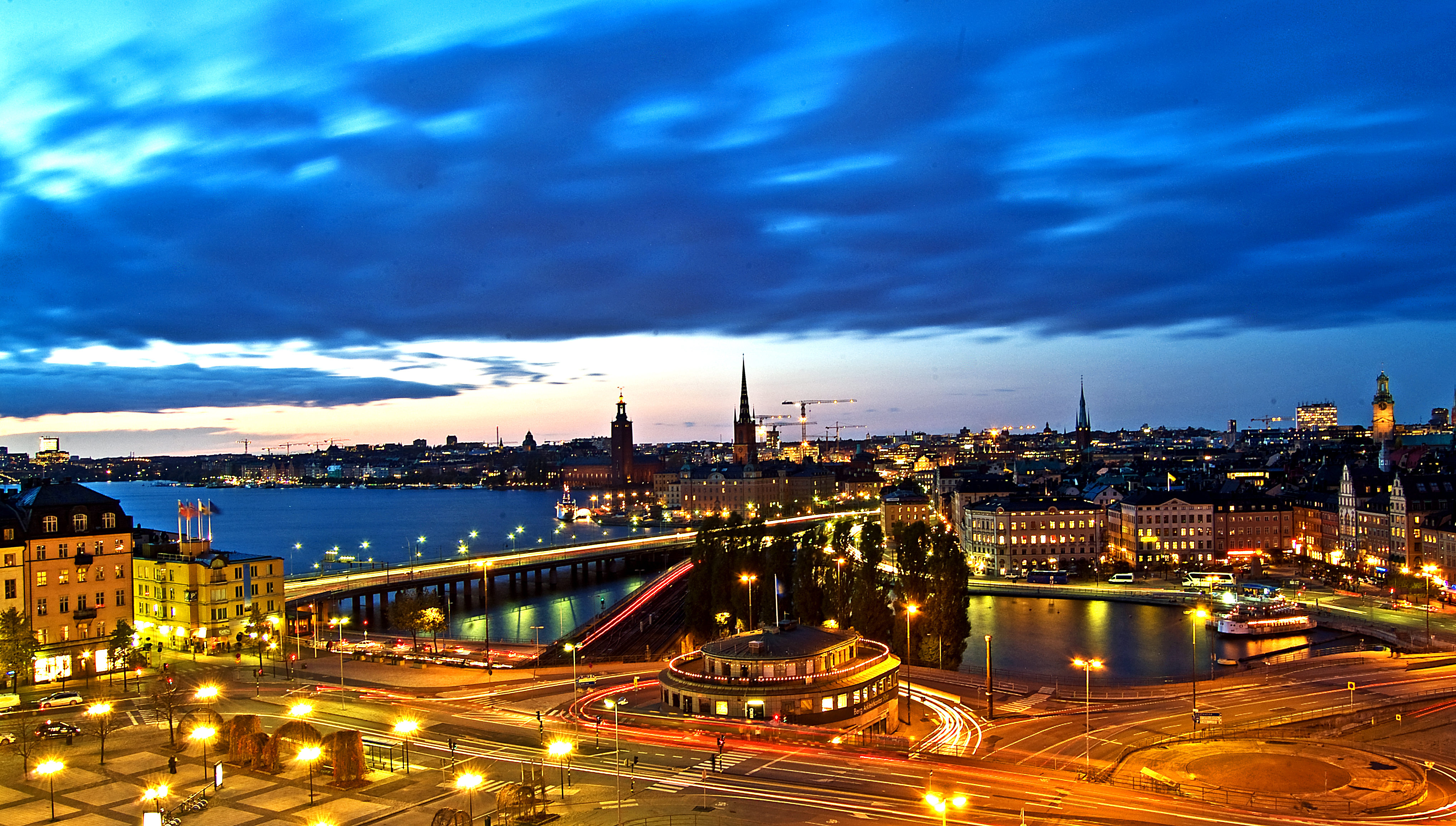 View On Black Hora azul.........Blue hour